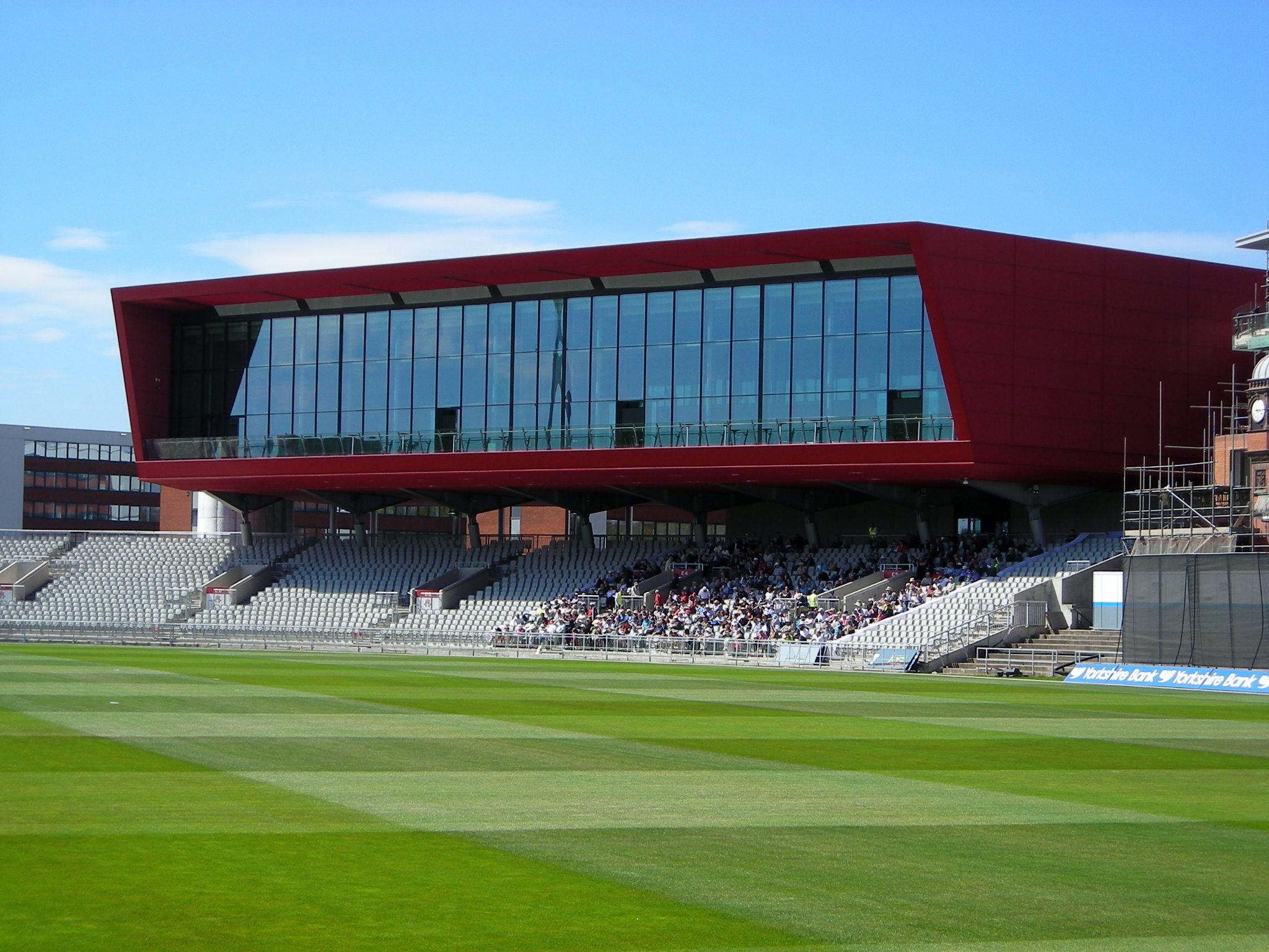 The Point is Lancashire County Cricket Club's £12m conference and events centre. It opened on 27th June 2010 as part of the ground's redevelopment.